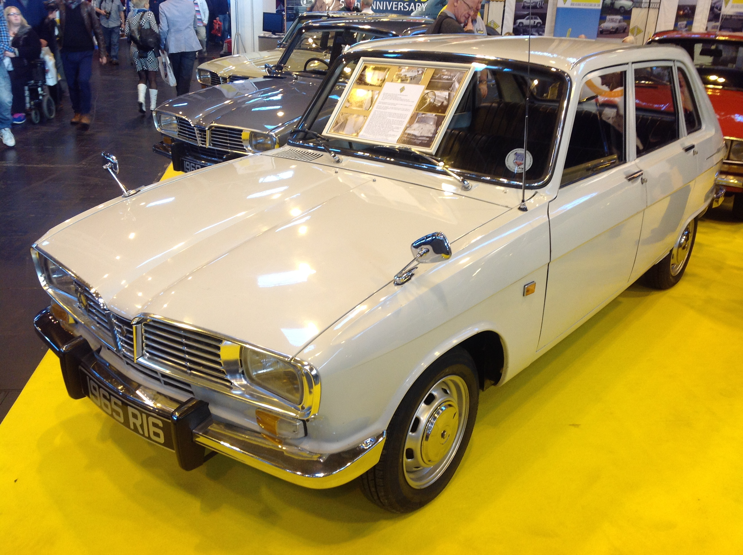 50 Years young. Happy Birthday 1965-2015. NEC Classic Car Show, 13 November 2015